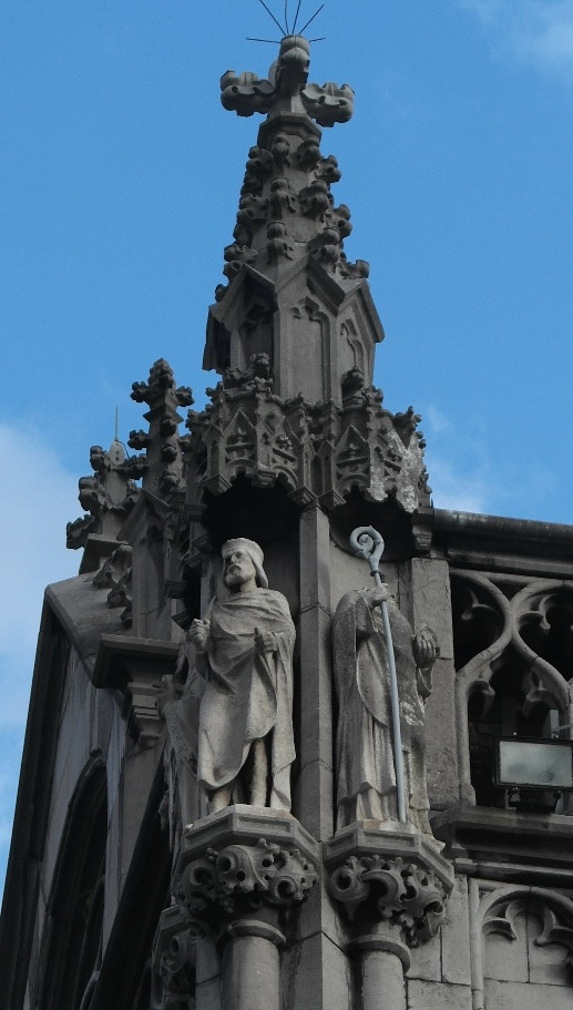 West façade of the provincial palace in Liège, Belgium Here the 19th-century statues of bPepin of Landen and Saint Remacle.